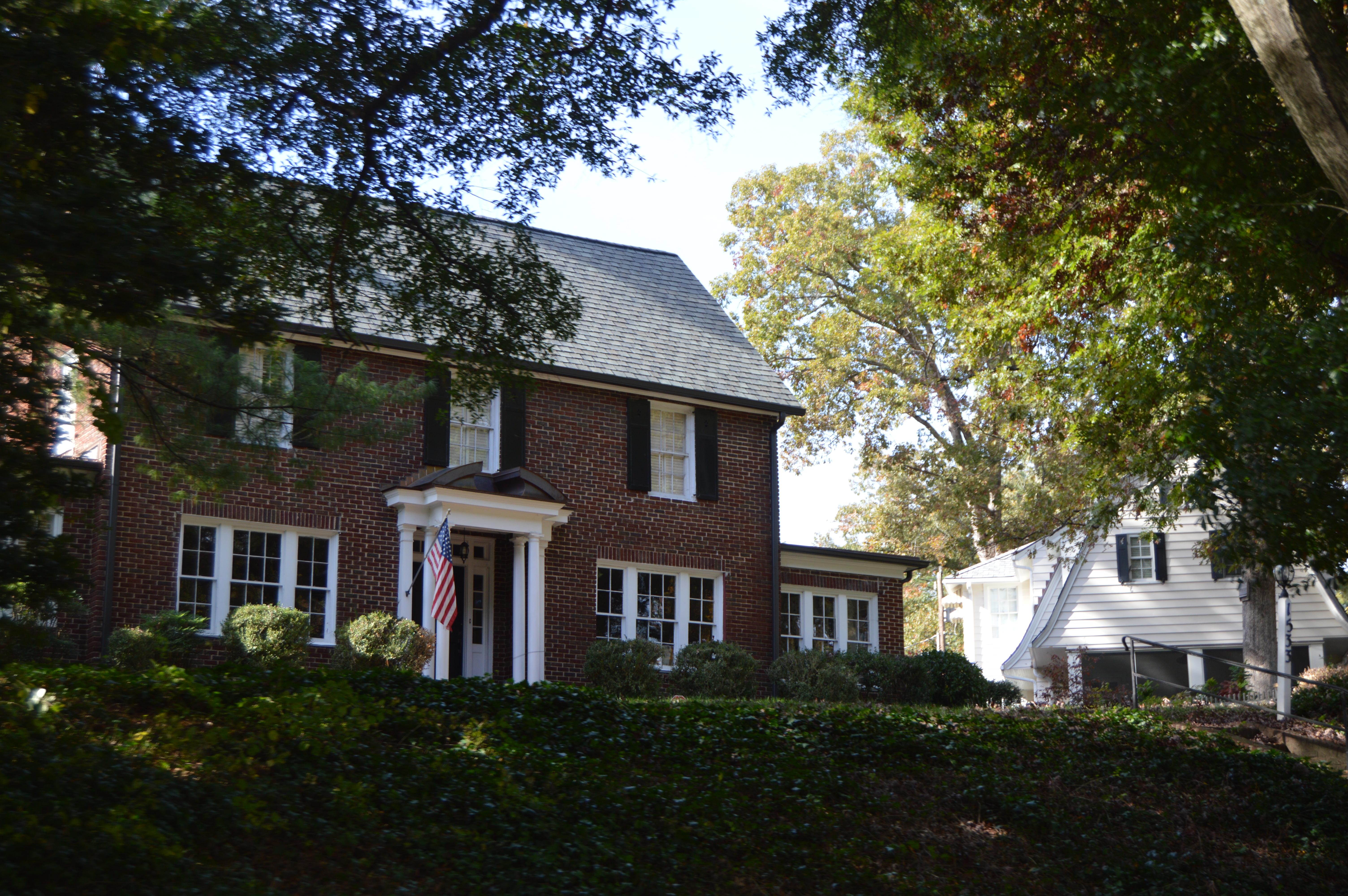 Houses on the interior of Hermitage Court in Durham, North Carolina, United States. Hermitage is part of the Forest Hills Historic District, a historic district that is listed on the National Register of Historic Places.